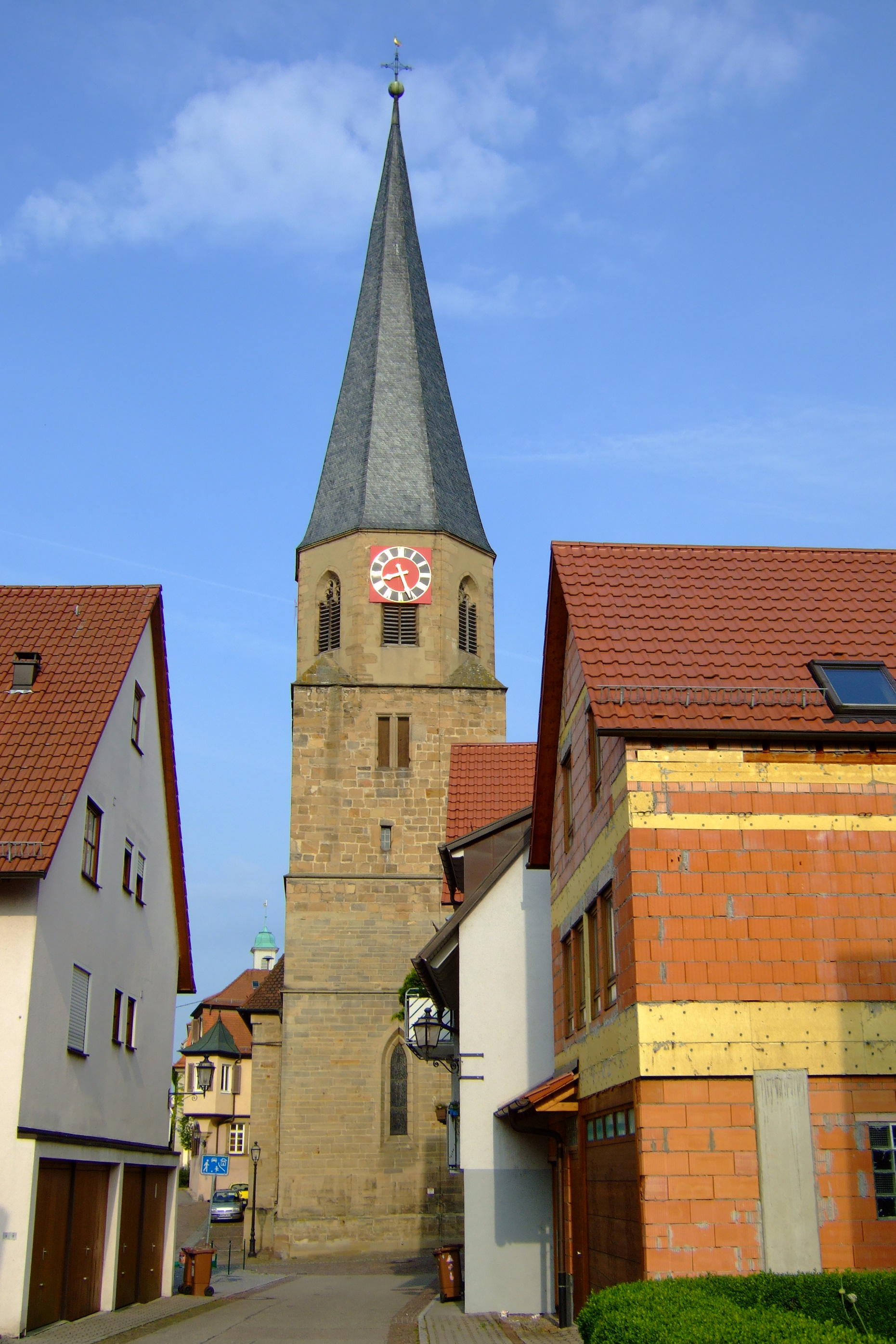 parish church "St. Jakobus", Brackenheim/Germany, photograph by J. Köhler - 2007